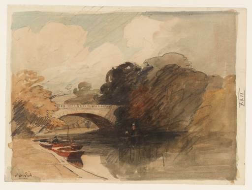 Shillingford Bridge, circa 1911. Watercolour and pencil on paper, 20.4 x 27.3 cms, by Alfred William Rich. Tate Gallery (T08216). In the public domain.